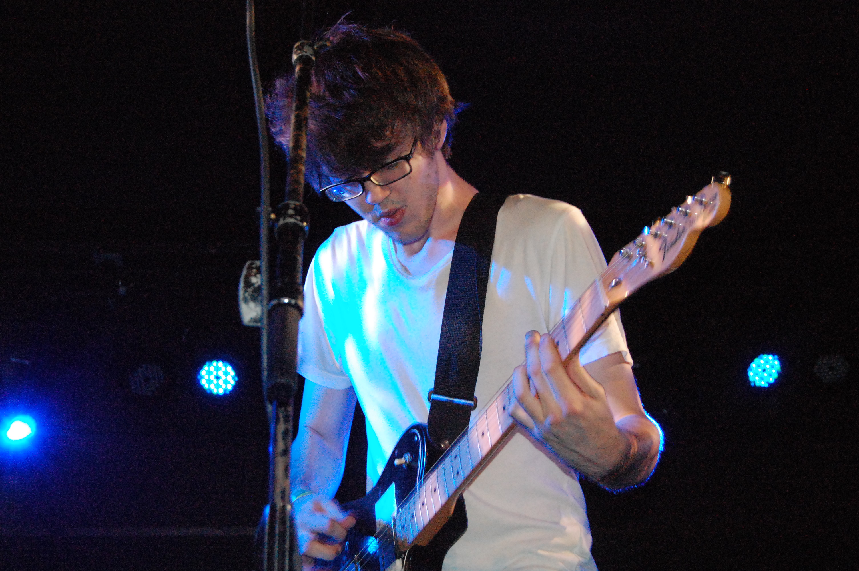 Dylan Baldi from Cloud Nothings